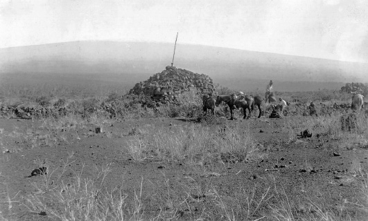 Ahu A ʻUmi Heiau was a vast complex of temples and living areas built around the 16th century. It is located on a remote dry plateau between Mauna Loa and Hualālai on the Big island of Hawaiʻi. It is site 74000343 on the National Register of Historic Places on the island of Hawaiʻi, in the state of Hawaii.